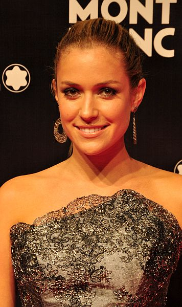 Television Personality Kristin Cavallari attends "To John - With Peace & Love" Global Launch Of The Montblanc John Lennon Edition on September 12, 2010 at Jazz at Lincoln Center in New York City. (Photo © Nick Stepowyj)